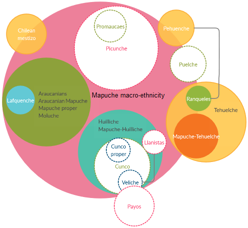 Diagrama de Venn de etnias mapuche. Linea intermitente y fondo blanco indican denominaciones históricas que por varios motivos ya no se ocupan para los descendientes. Los grupos araucanizados/mapuchizados o de descendencia parcial mapuche se ubican en la periferia del campo principal.